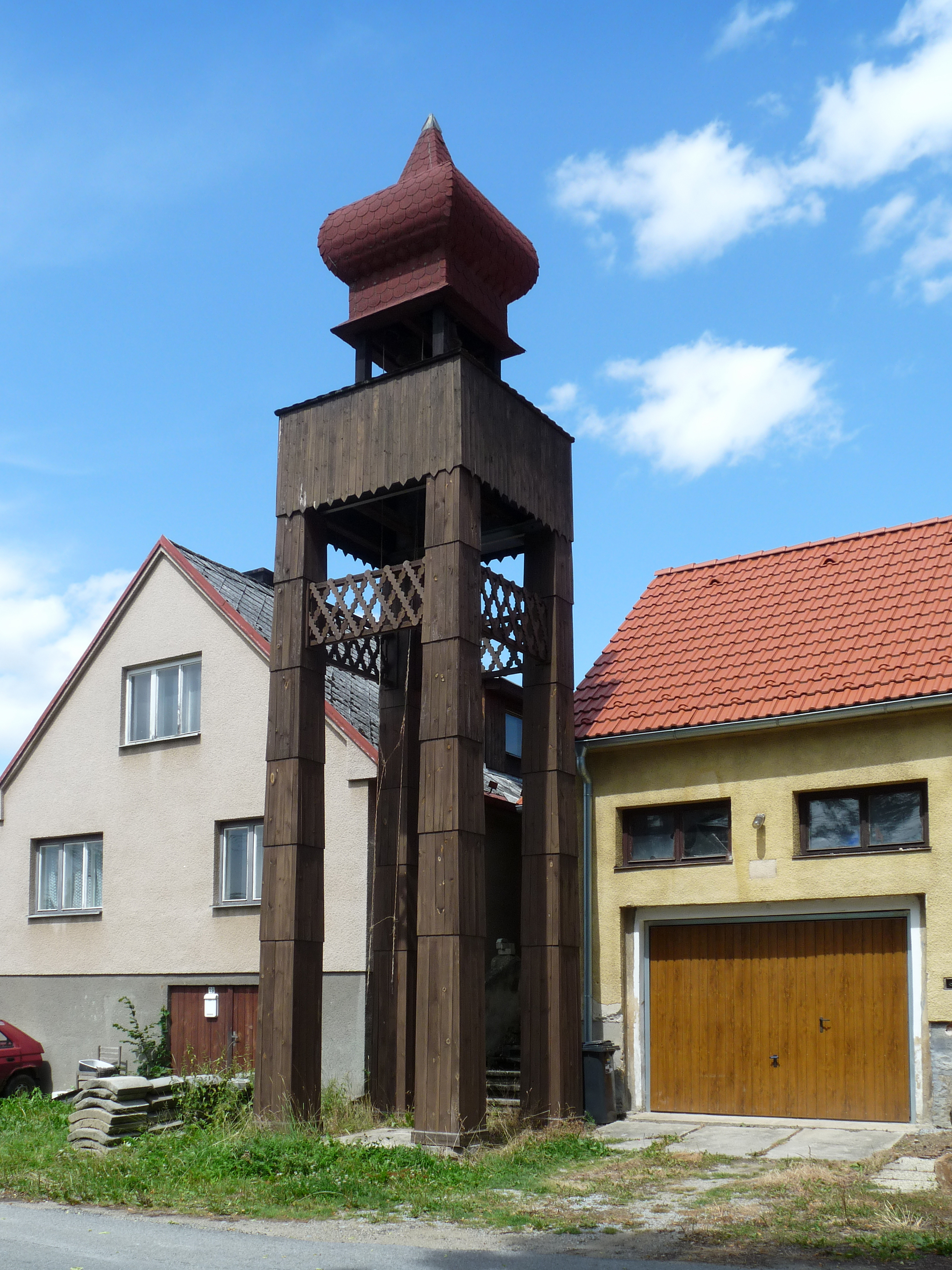 Bell tower in the village of Hůrka, part of Nová Ves, České Budějovice District, Czech Republic.